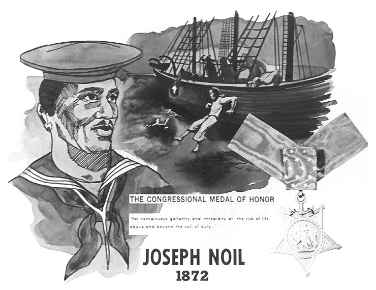 United States Navy poster featuring Medal of Honor recipient Seaman Joseph Noil. Noil received the Medal of Honor for saving a drowning USS Powhatan shipmate, Boatswain J.C. Walton, at Norfolk, Virginia on 26 December 1872.